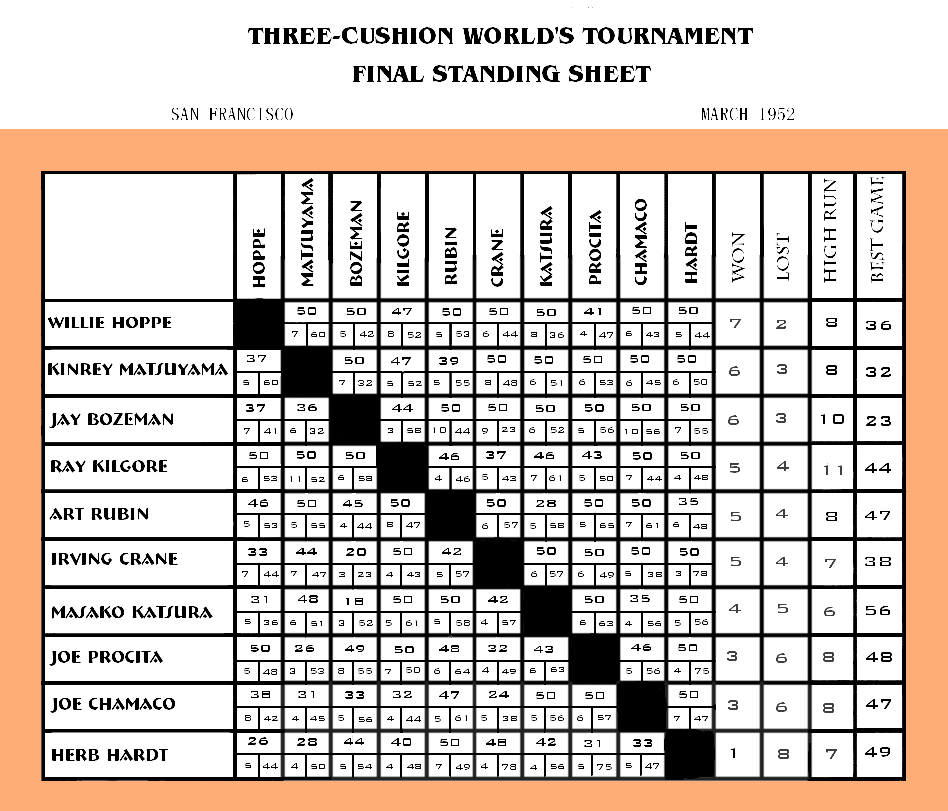 Final standing sheet for 1952 World Three-Cushion Tournament held in San Francisco at Welker Cochran and Tex Zimmerman's 924 Club, March 6, 1952 through March 22, 1952. Image emulates the form of the actual handwritten standing sheet used to record matches during the tournament. Created using